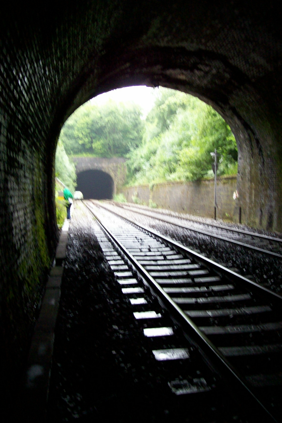 Sapperton Tunnel Licensing Category:Cirencester Category:Transport in Gloucestershire Category:Great Western Railway